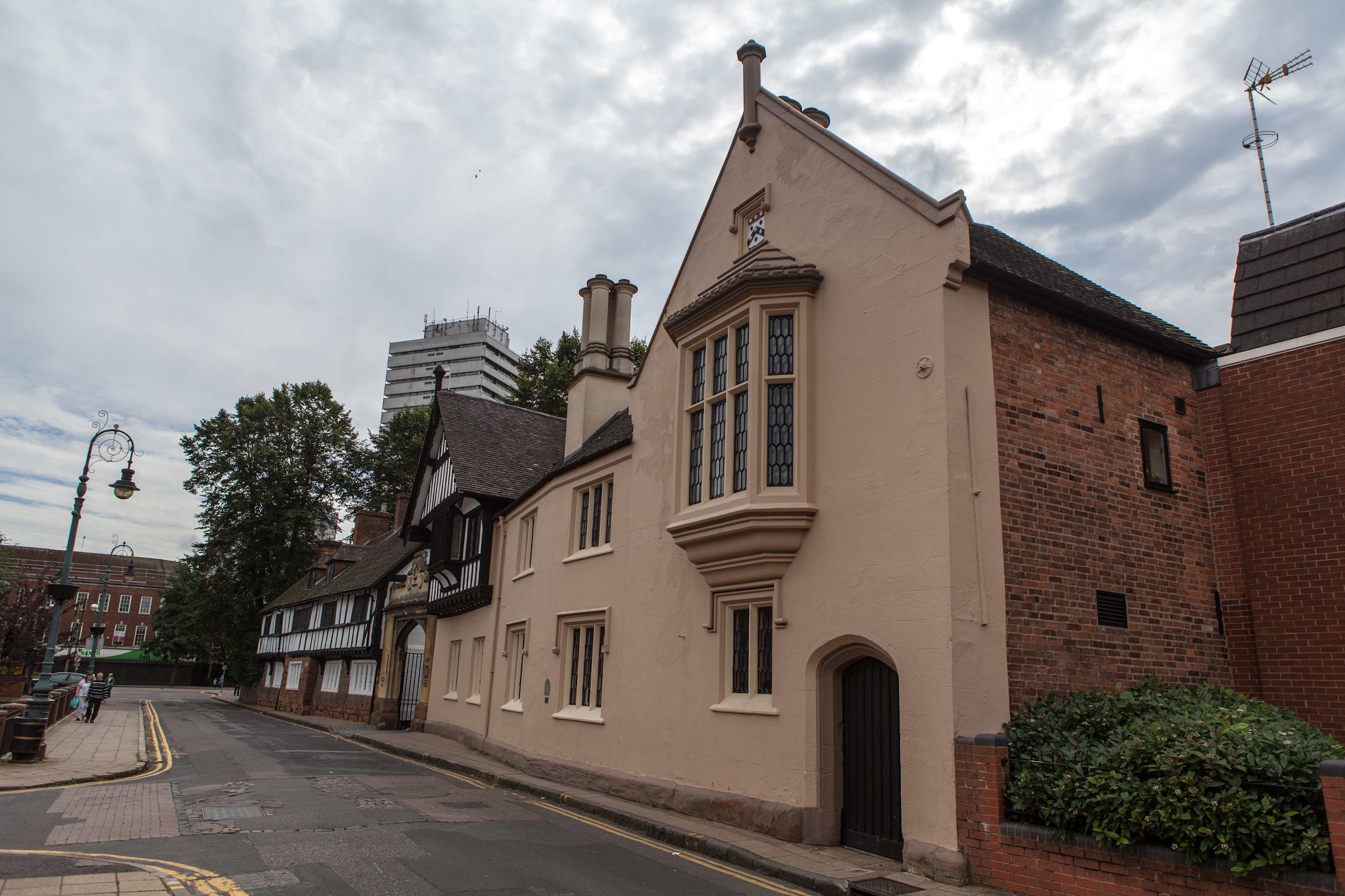 A21 - Old Bablake School in Coventry, UK